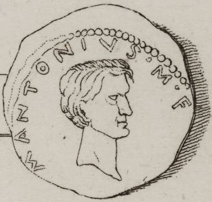 Marcus Antonius Antyllus on a coin drawing